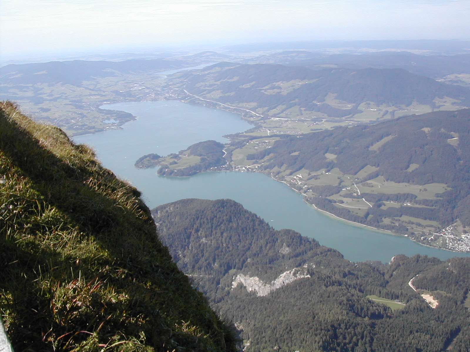 Lake Mondsee seen from Schafberg mountain.